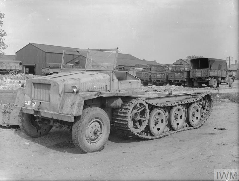 Schwere Wehrmacht Schlepper load carrier and tractor (© IWM (STT 7965)